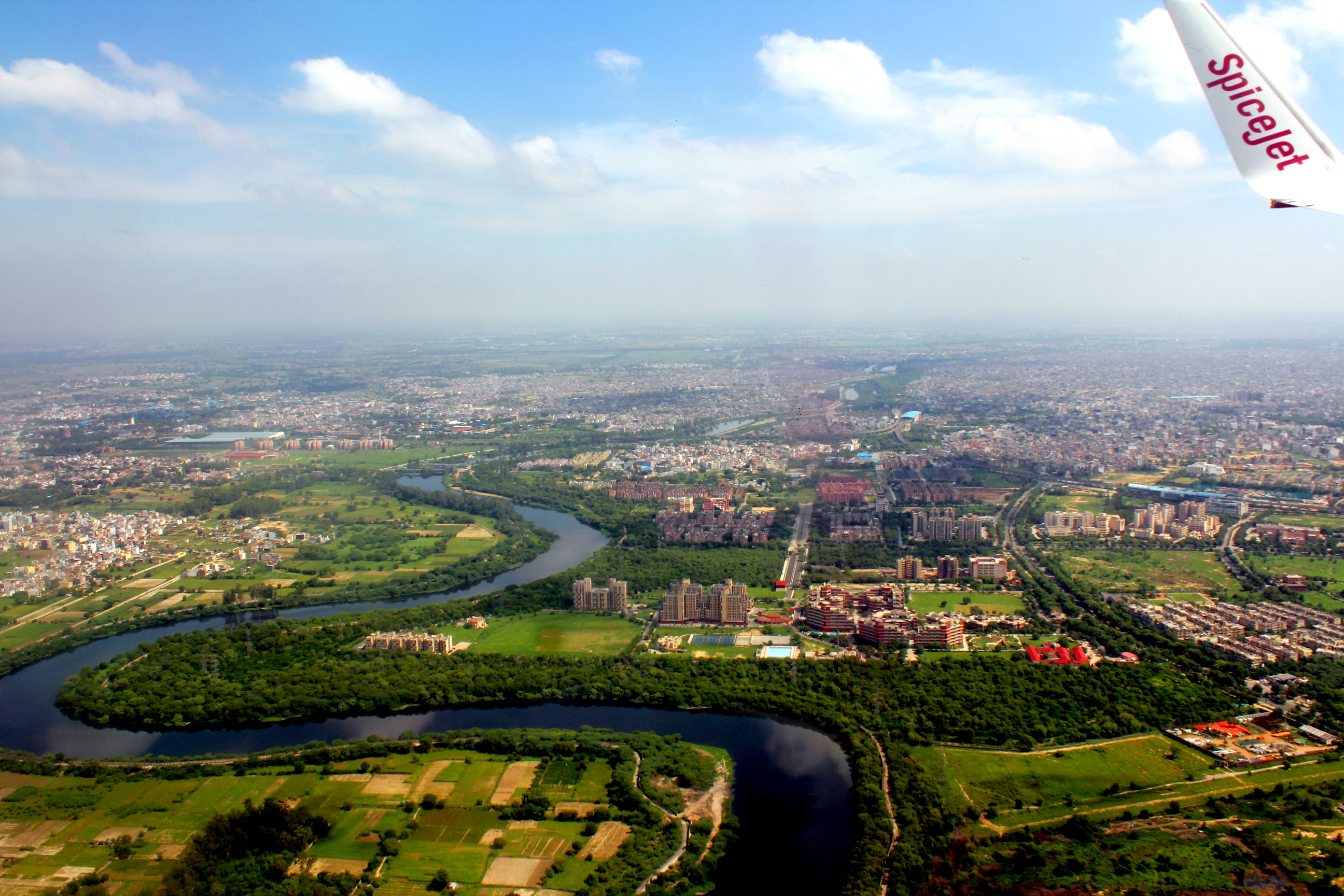 Delhi aerial photo 08-2016 including Najafgarh Drain,metro stations(Dwarka,Sector14)